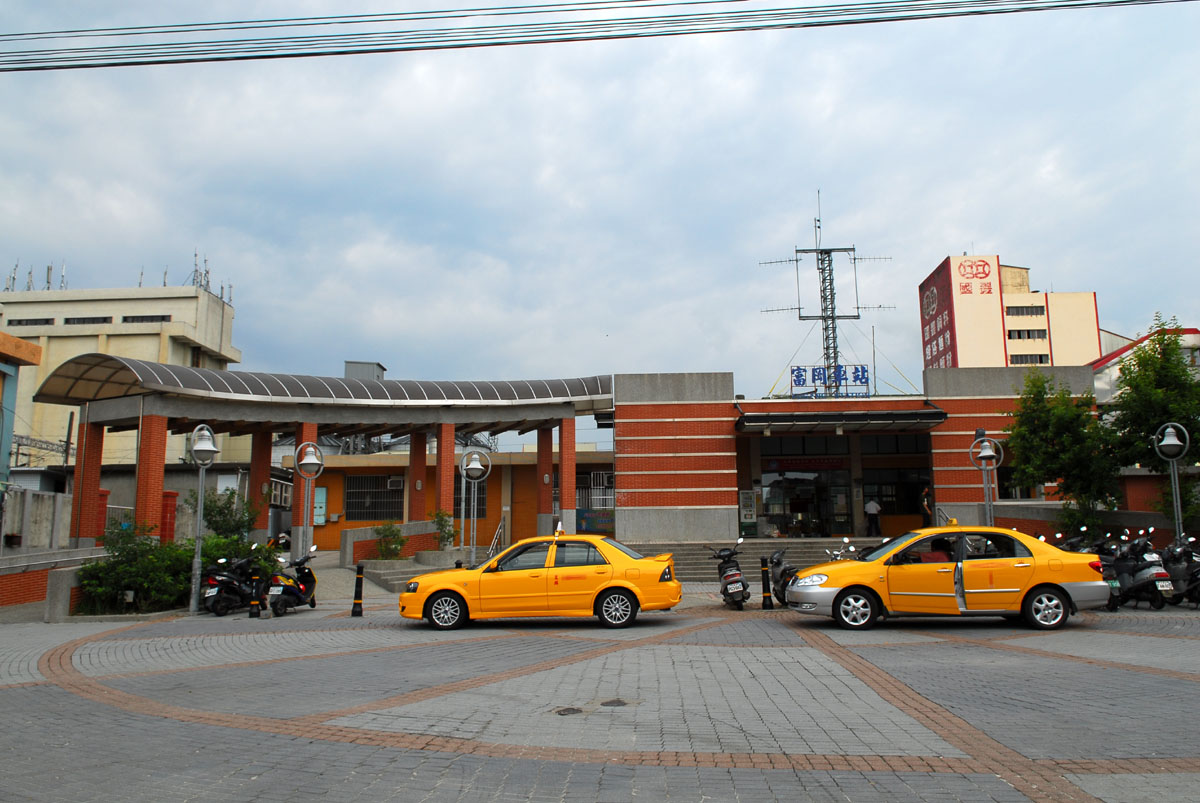 Fugang Station is a local train station of Taiwan's Western main rail line. The station is located within the boundary of Yangmei Town, Taoyuan County.